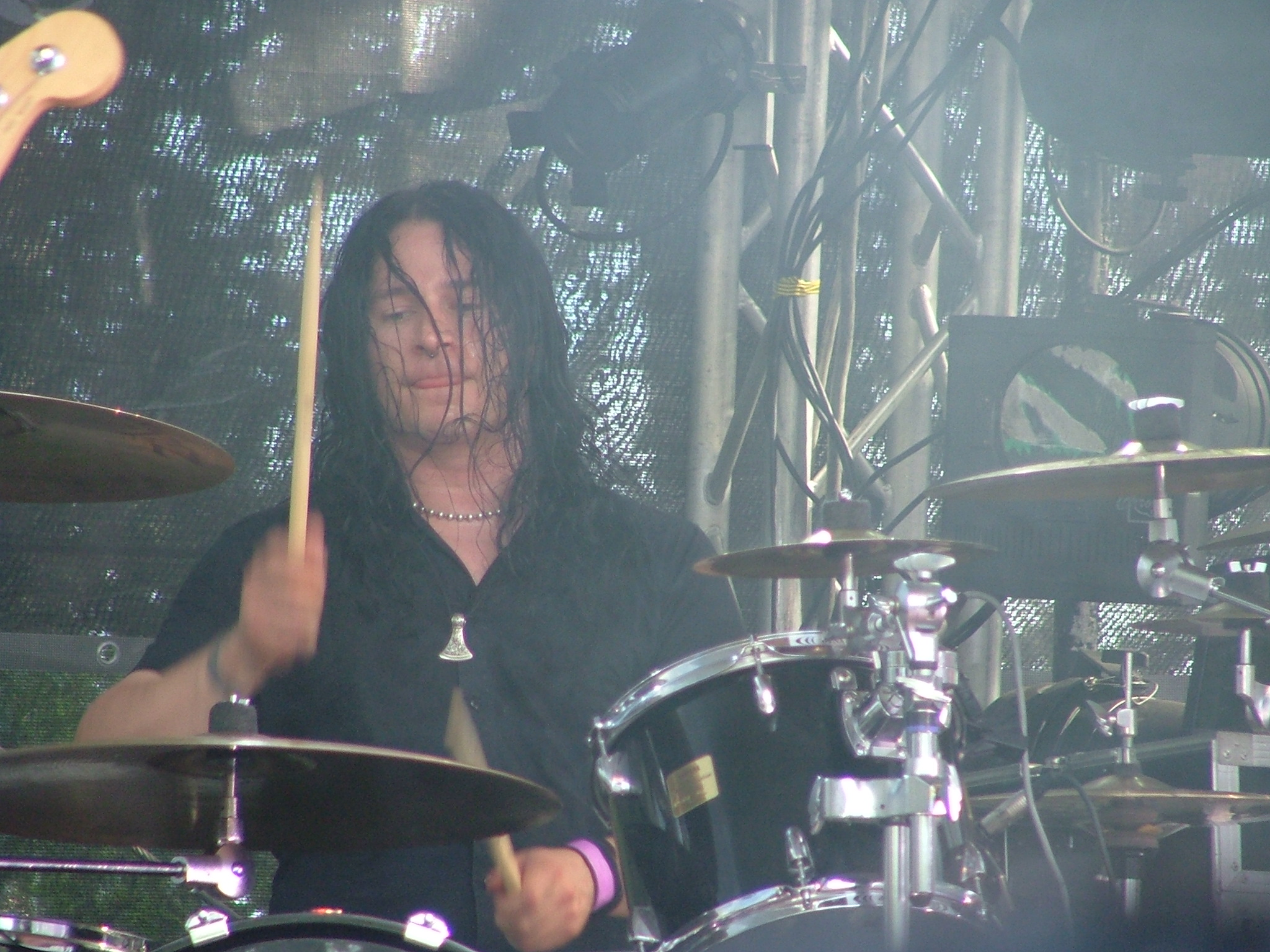 Finnish gothic metal band Entwine in Kuopio at Rockcock-musicfestival